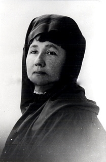 Iqbal (22 October 1876-10 February 1941), the wife of Khedive Abbas II of Egypt